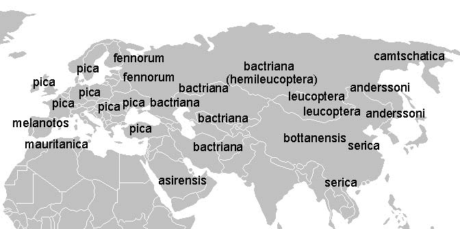 Pica pica. Distribution of subspecies, with national borders added